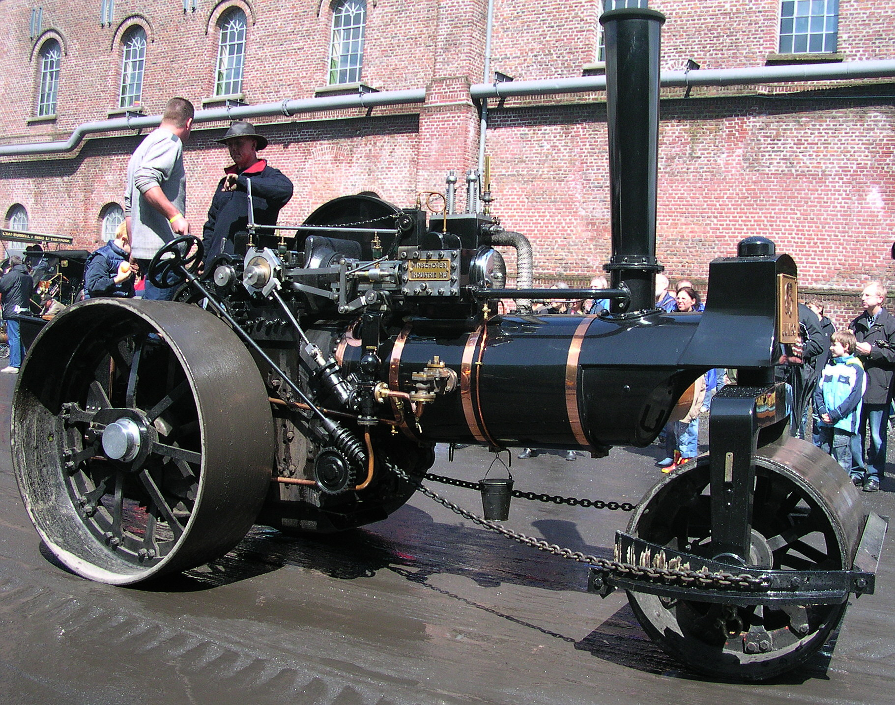 5th steam festival in Bochum, Germany 2007. “Lena”